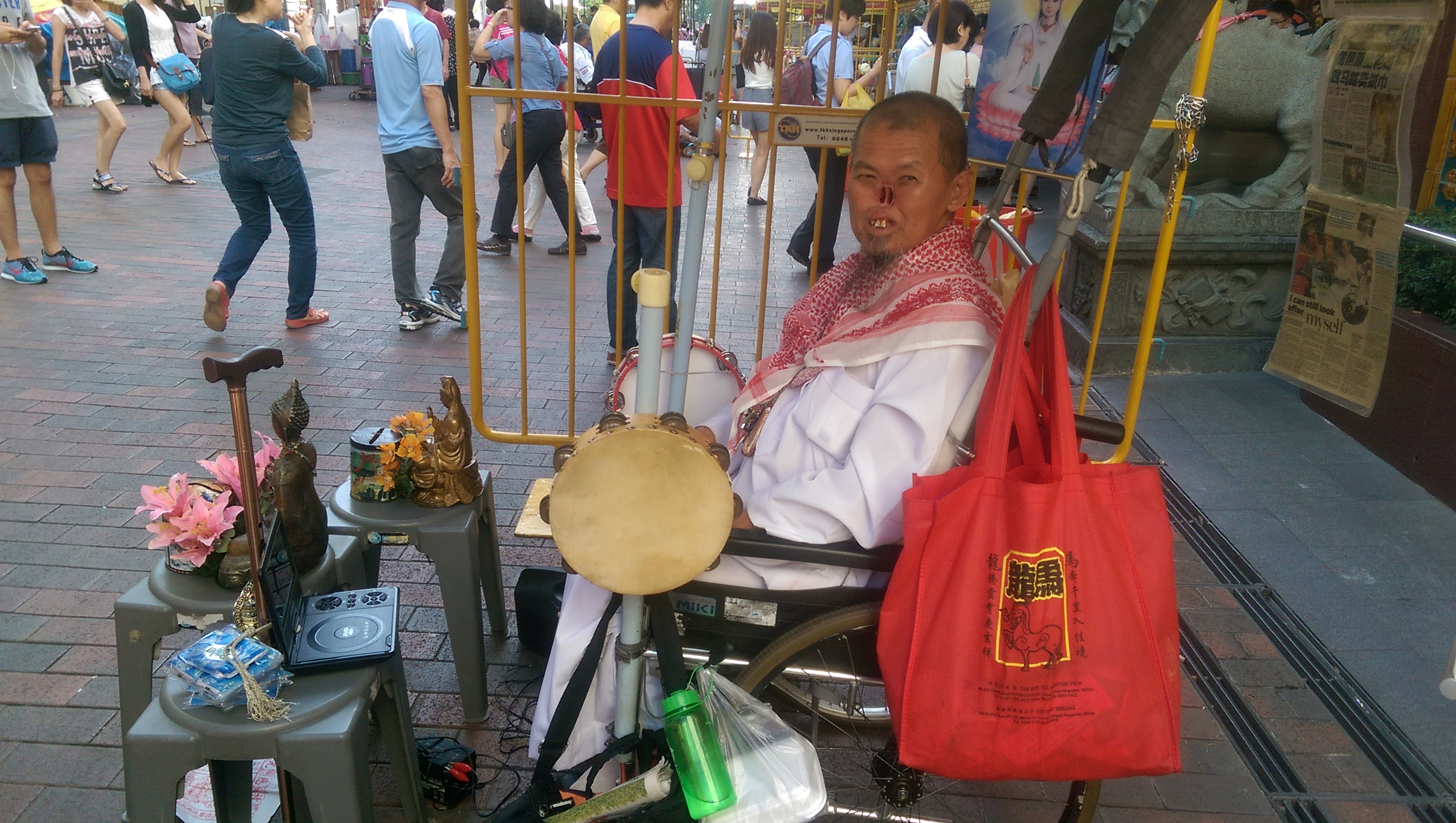 Zeng GuoYan outside Kwan Im temple in Bugis (30/12/2015)